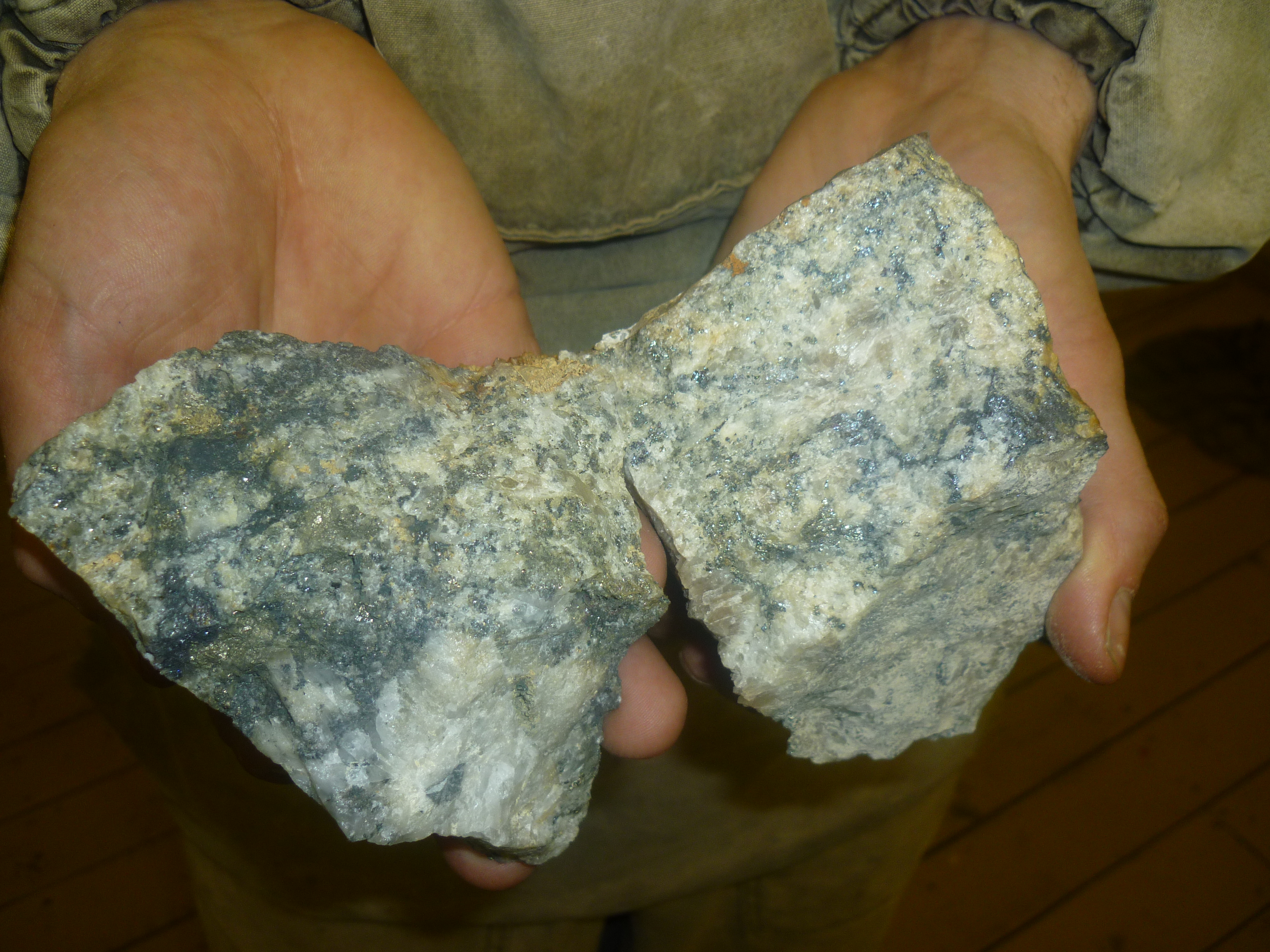 Silver ore.